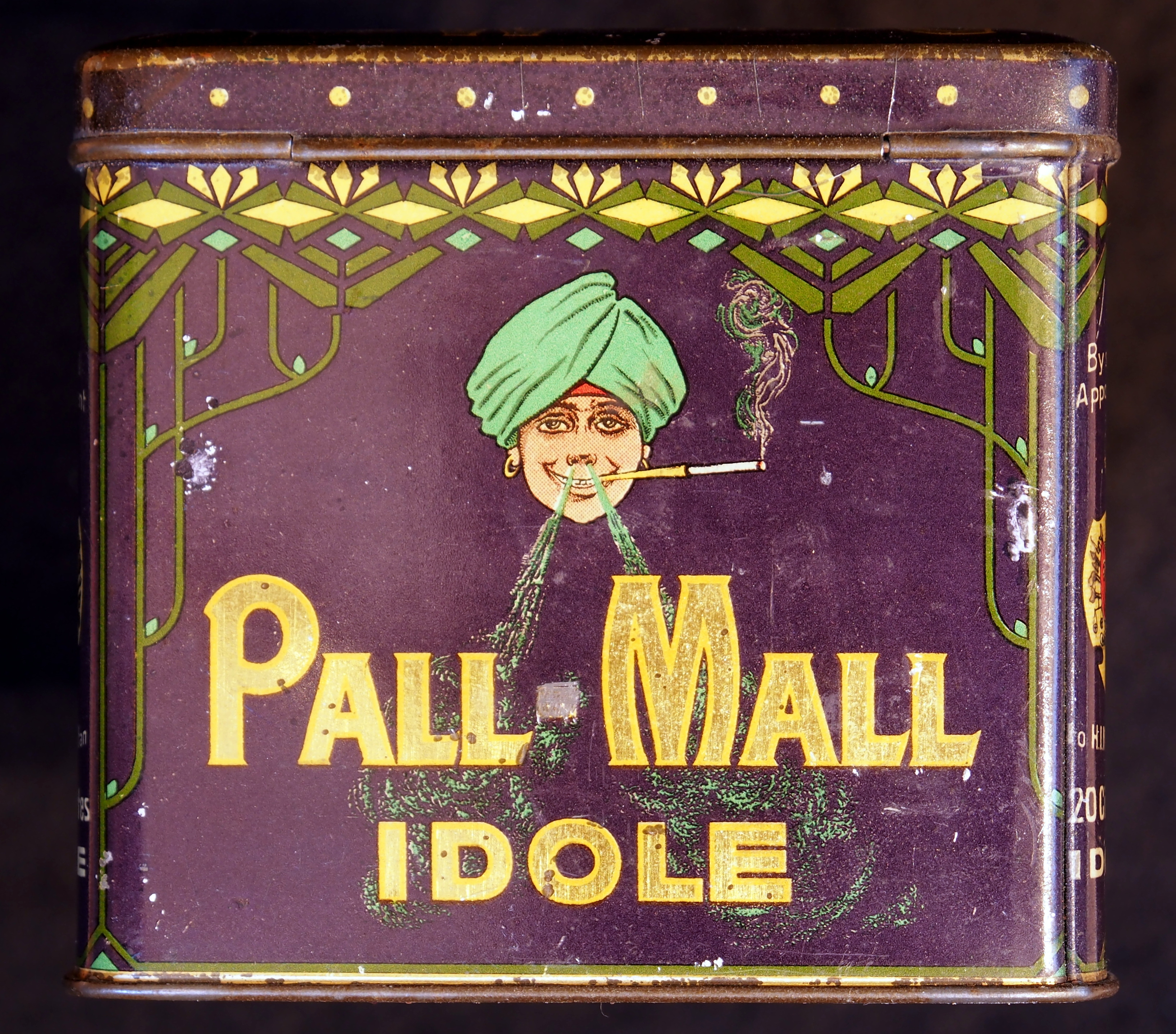 Very old product that is not produced and not sold any more. Note that some tins may look the same, but when looked for carefully there are some slight differences! For more info see tincollectors.nl or